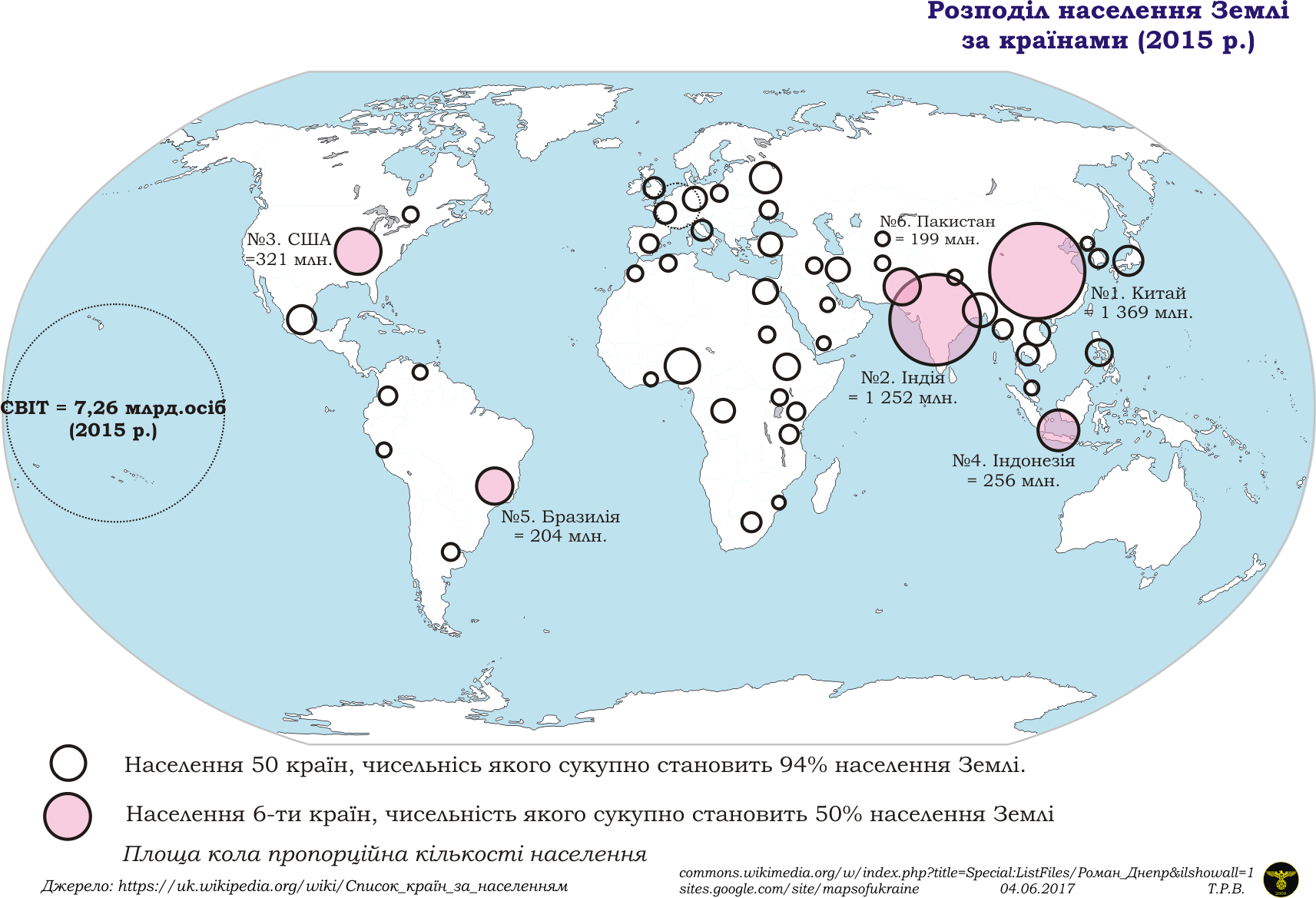 Distribution of world population by country (2015).